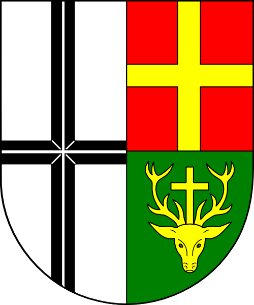 Coat of arms (shield only) of Hubert Theofil Simar, bishop of Paderborn, Germany (1891 - 1899), archbishop of Cologne, Germany (1899 - 1902).